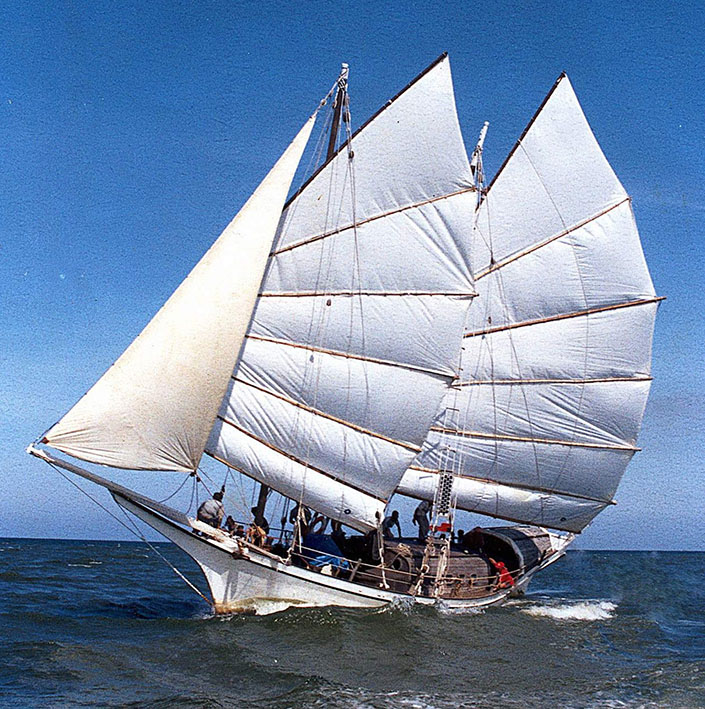 The original Naga Pelangi after her circumnavigation 1998 in Malaysian waters